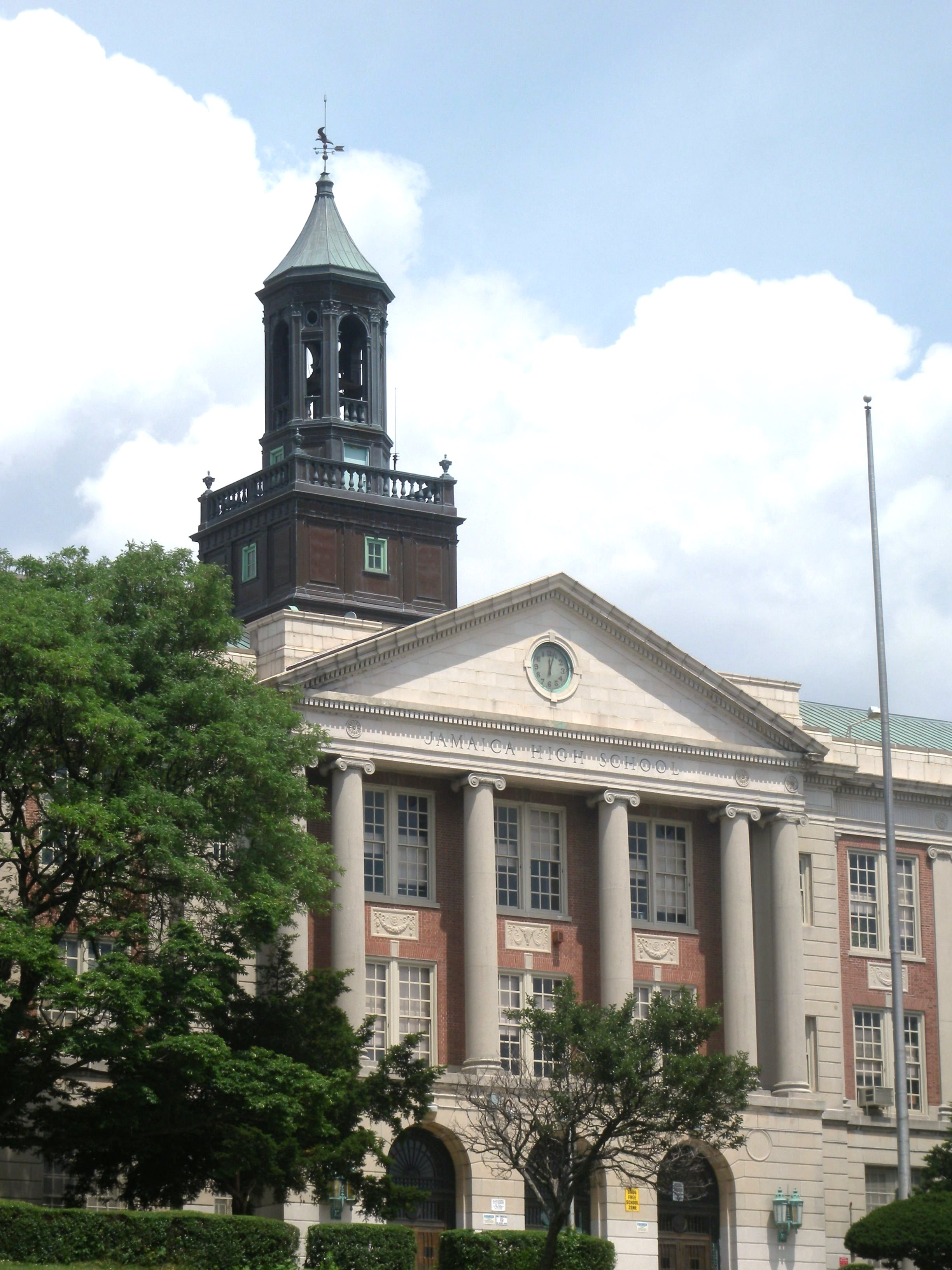 Looking north, maximum zoom, at central portion of Jamaica High from Chaplin Parkway on a mostly sunny midday.